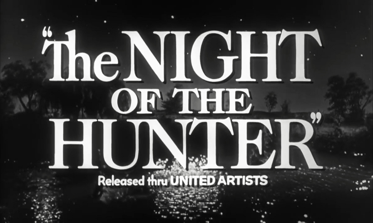 Screenshot of the trailer of the film The Night of the Hunter (1955).